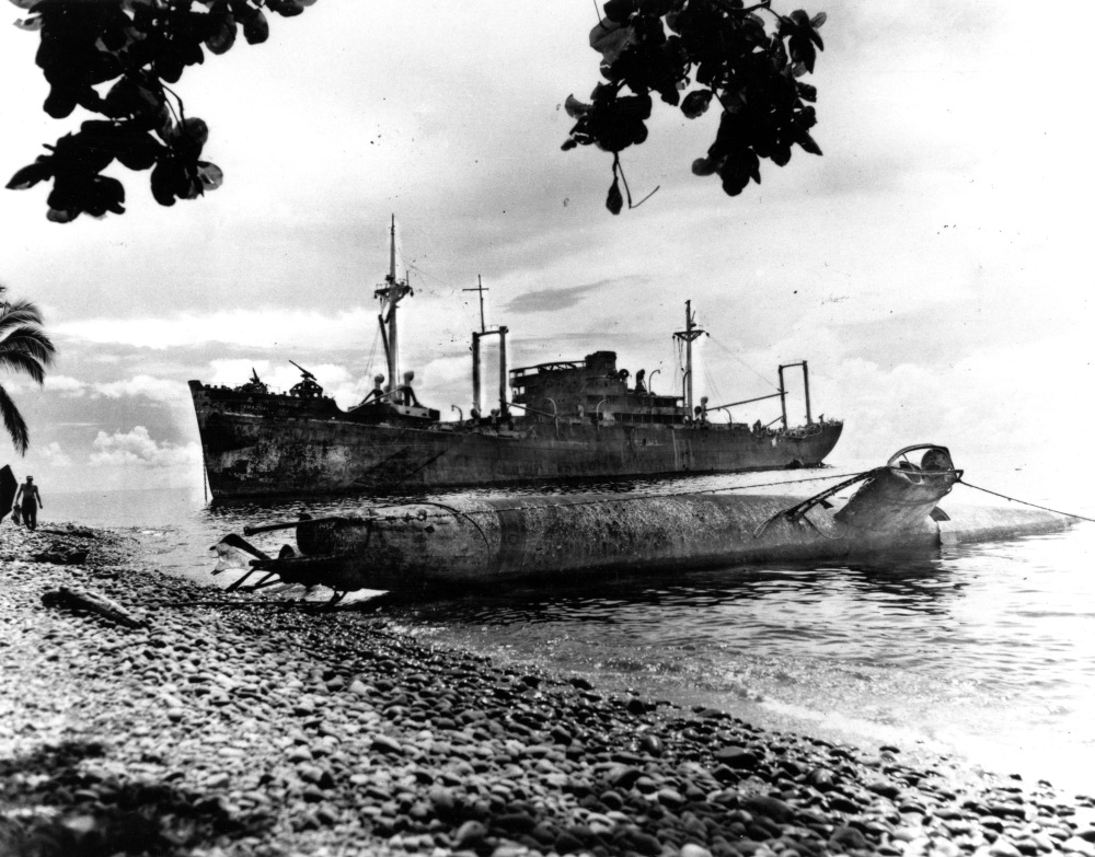 Japanese Type-A Ko-hyoteki class 2 man sub salvaged by 8 Seabees from the 6th CB off Tassafaronga Point, Guadalcanal.